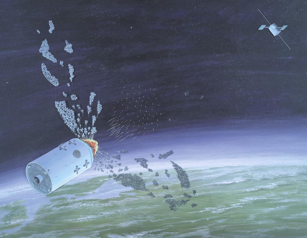 DIA artwork showing their best guess at the layout of the Soviet IS anti-satellite weapon